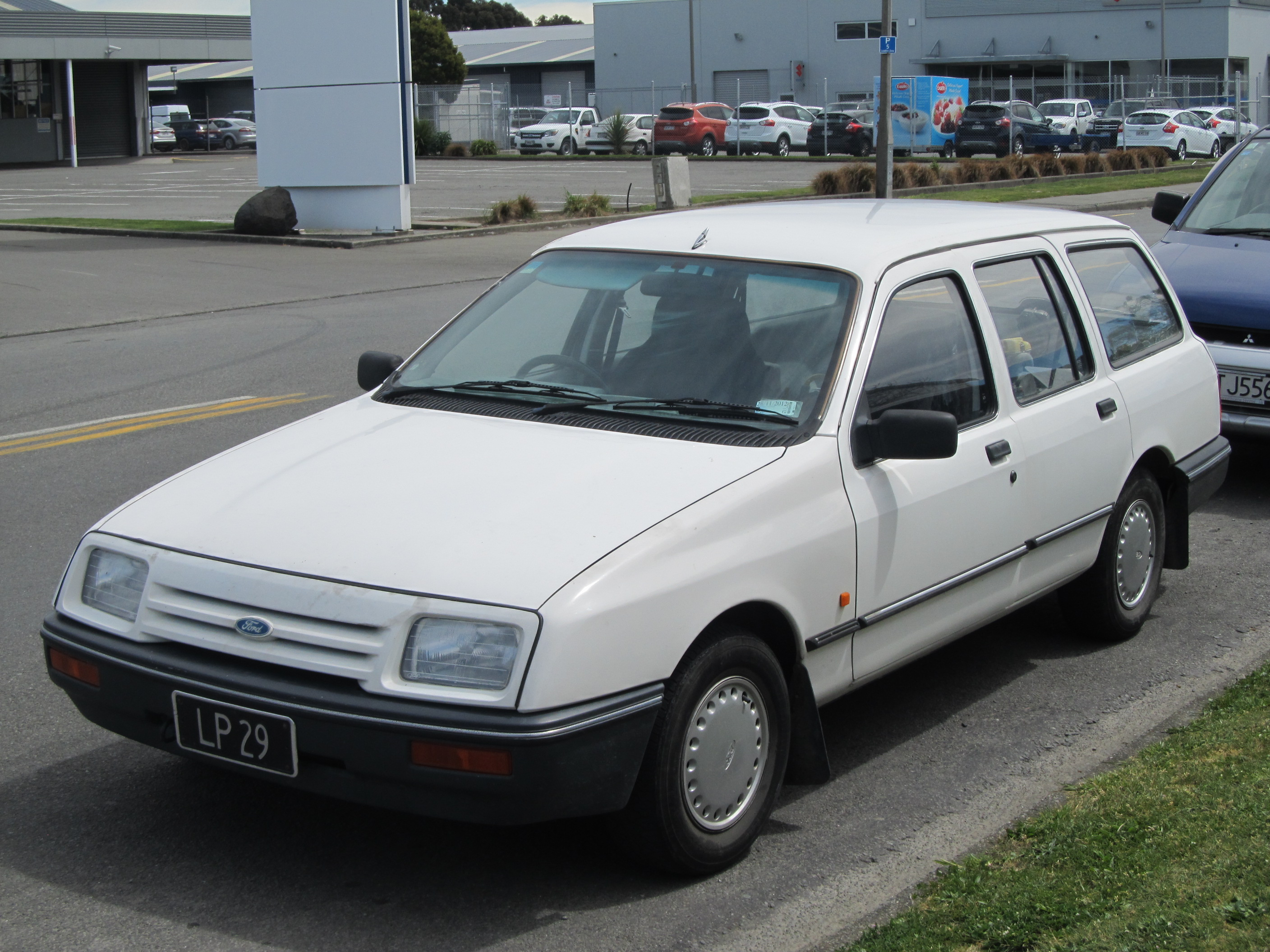 LP29 I was glad to finally get some photos of this extremely clean and original Sierra a few months ago after hunting for it over the months of September and October! It appears to be in use by a tradie judging by the amount of gear in the back. 1984 was the first year the Sierra was available in New Zealand, and only in base 2.0L estate spec, aimed at fleet buyers.